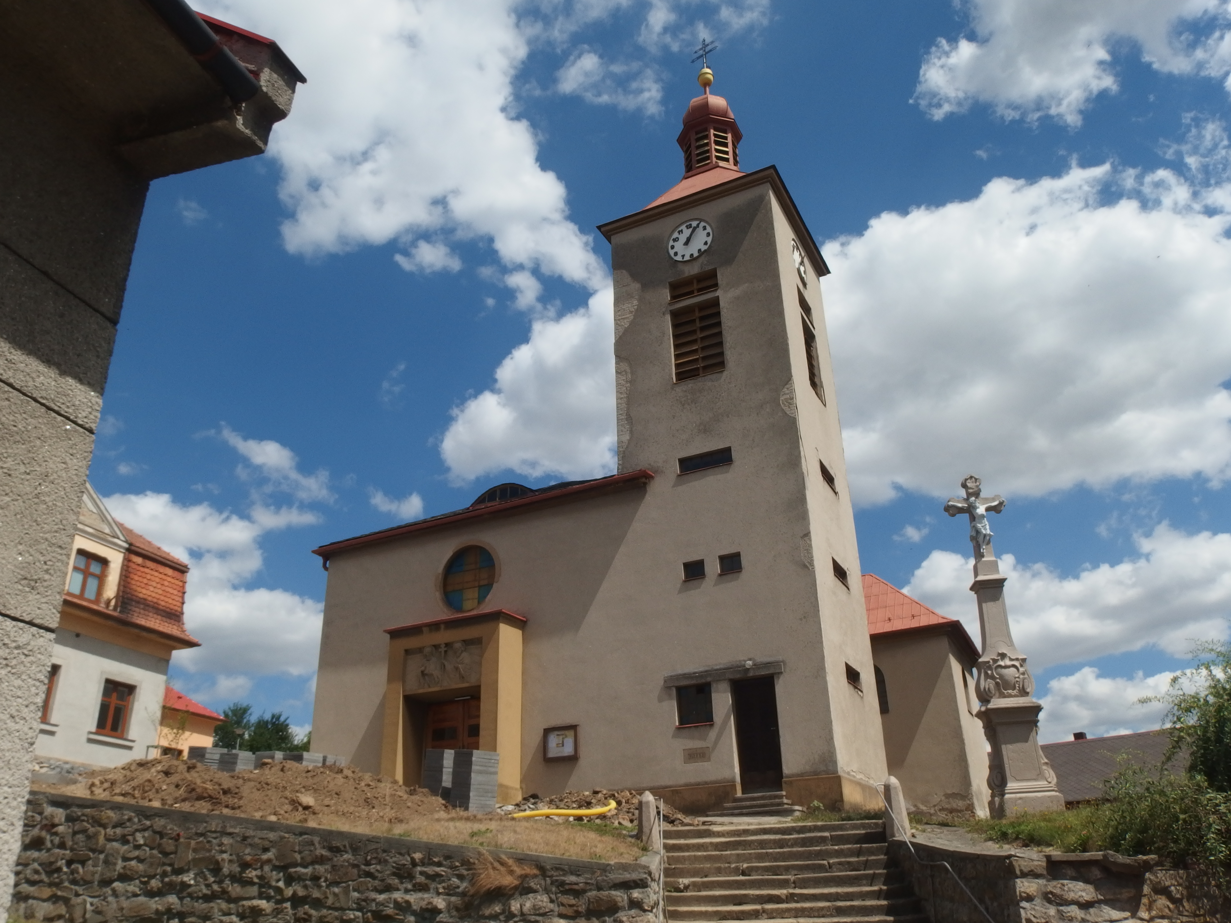 Domaželice, Přerov District, Czech Republic.